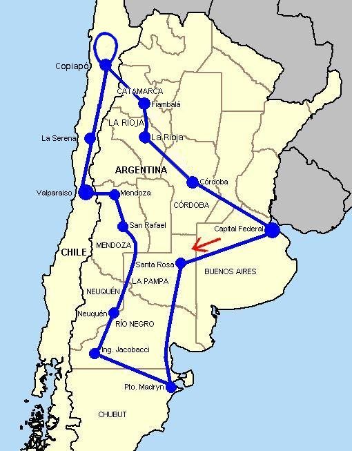 Stages of the 2009 Dakar Rally, corrected